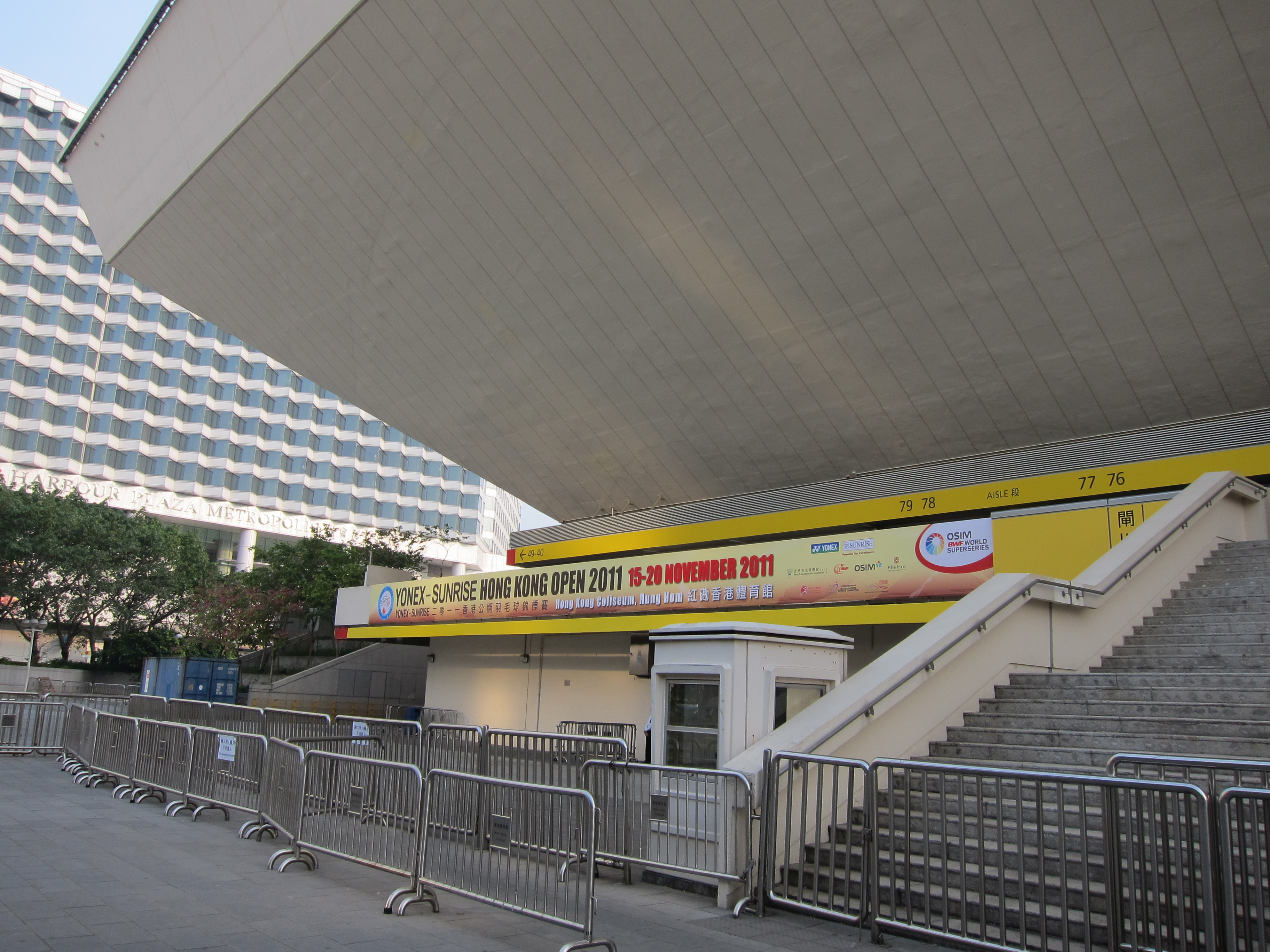 The Venue of Hong Kong Open Badminton Championships 2011 - Hong Kong Coliseum